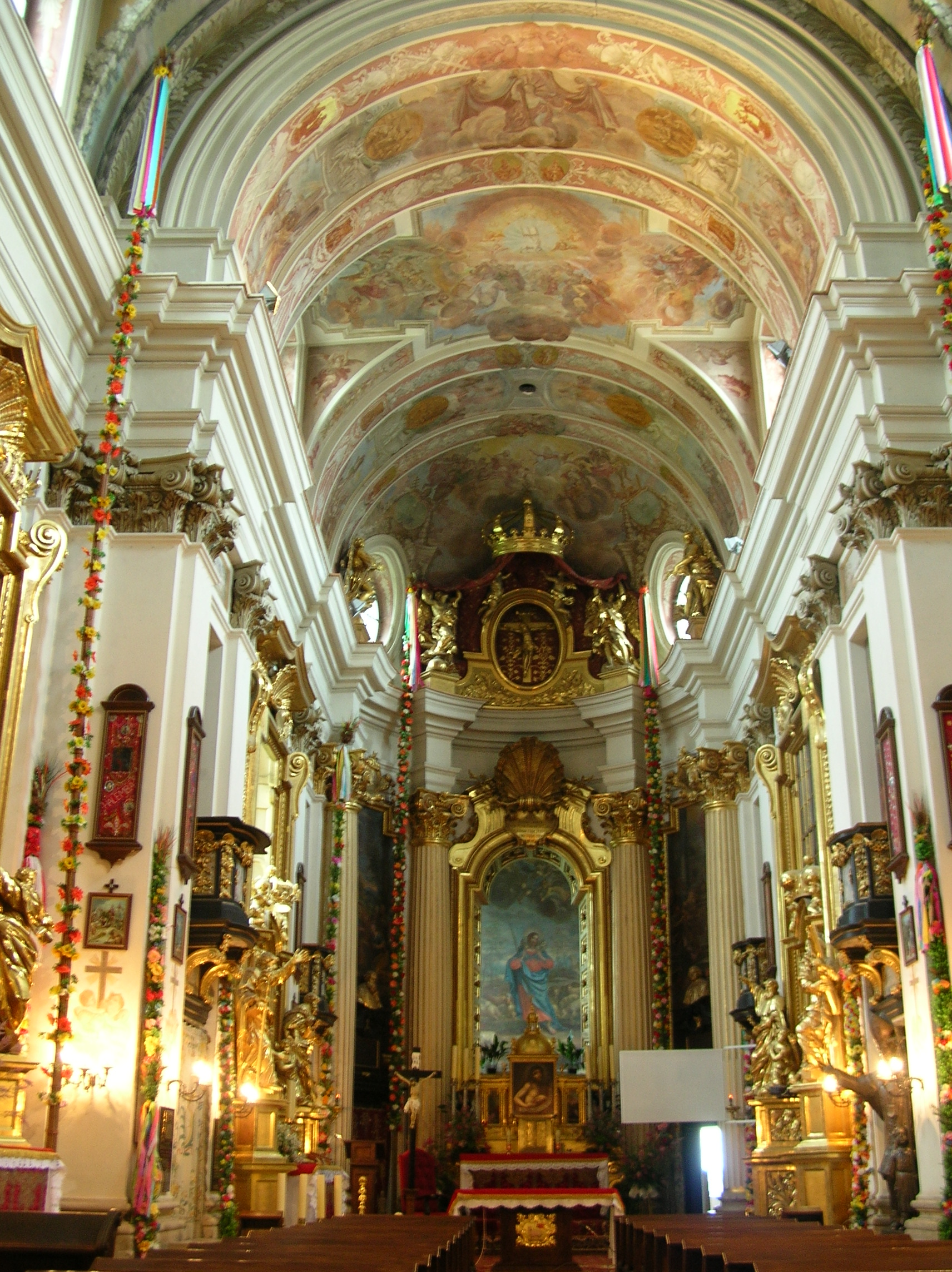 Monastery at Imbramowice interior